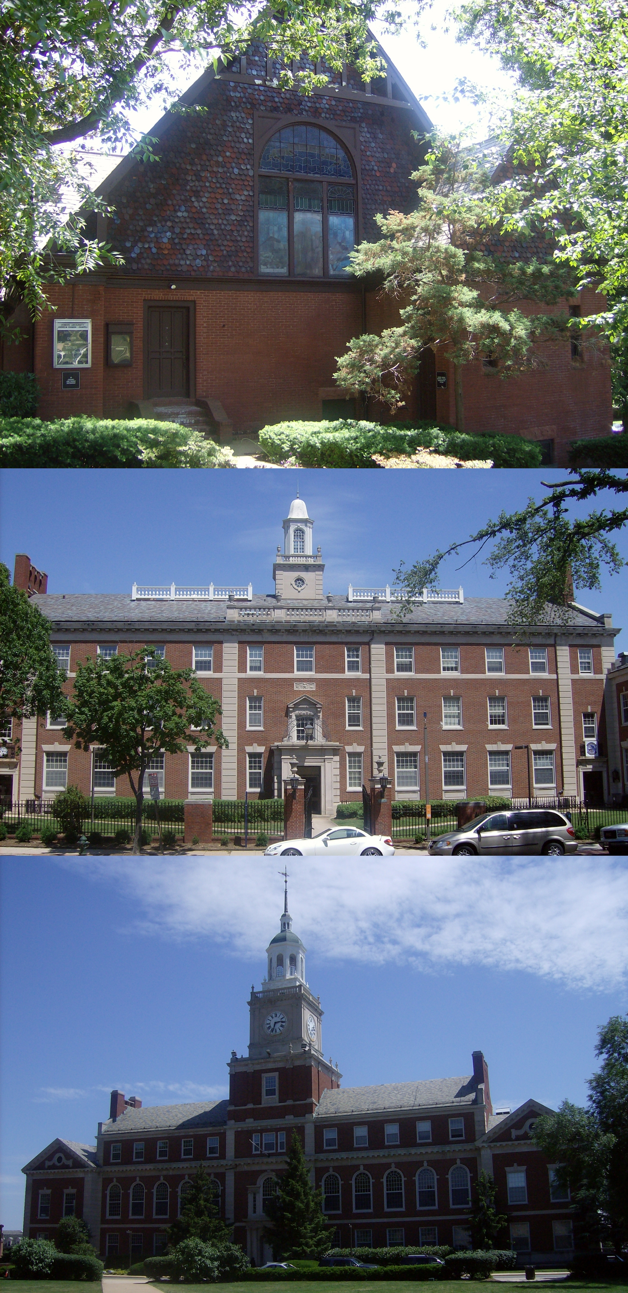 Andrew Rankin Memorial Chapel, Frederick Douglas Memorial Hall, and Founders Library of Howard University in Washington, DC.